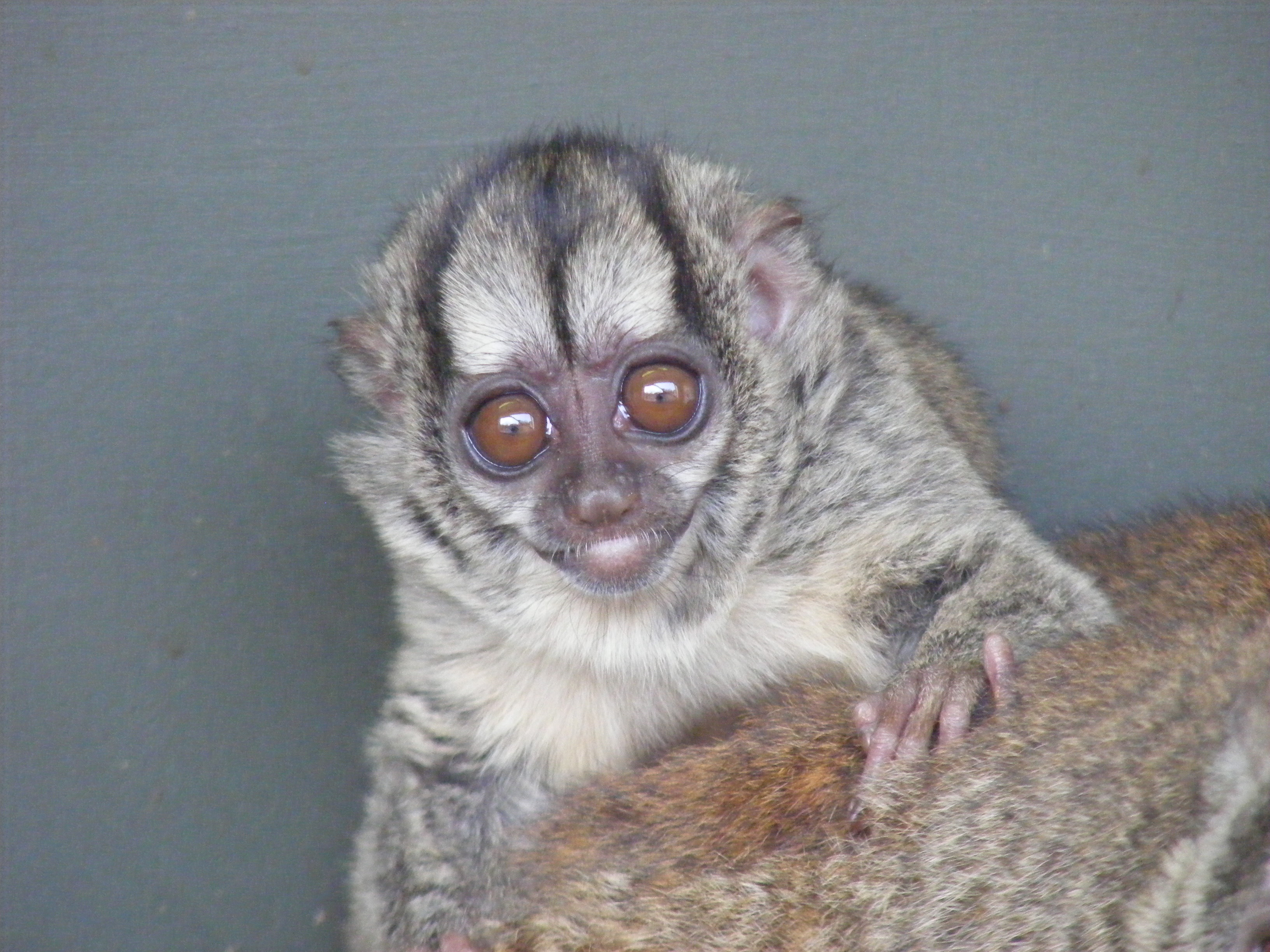 Grey-legged night monkey (douroucouli) - taken at Marwell Wildlife on 27th March 2011